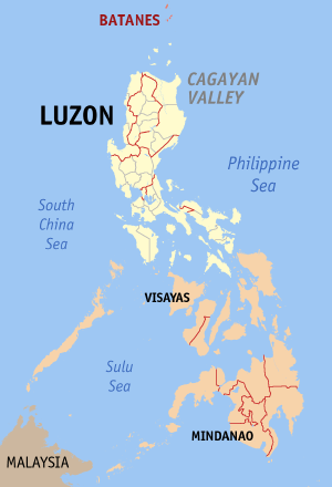 Map of the Philippines showing the location of Batanes